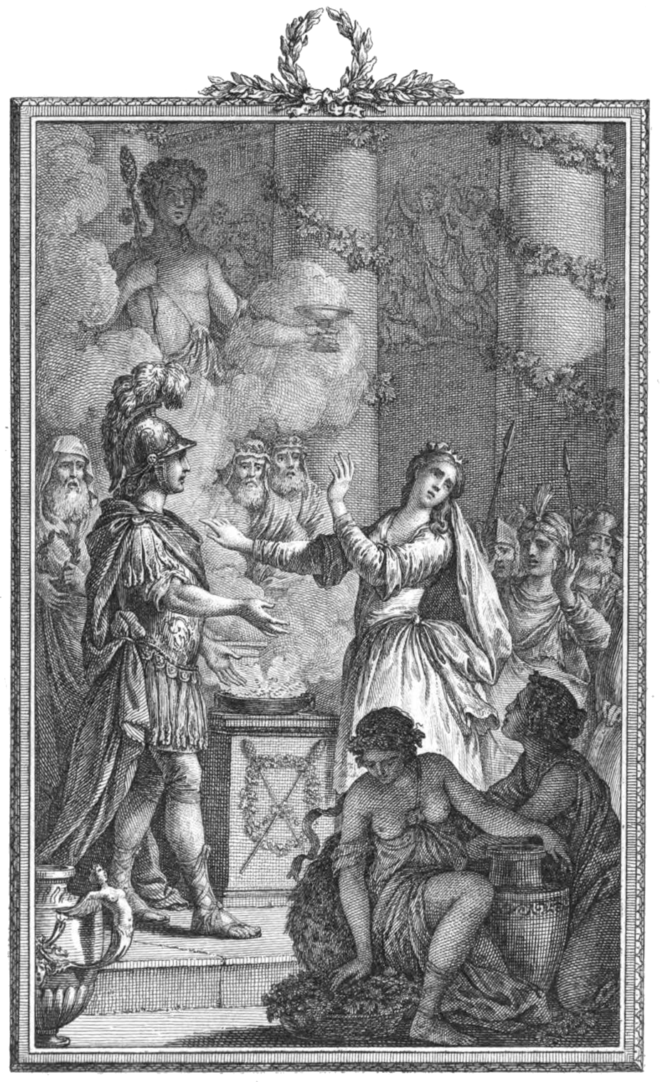 Metastasio - Alessandro nell’Indie, Atto III, Scena XII. „Ferma. È tempo di morte, e non d’amori.“